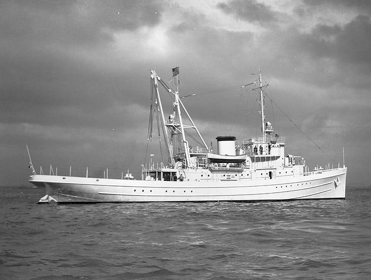 Seminole (AT-65), photograph taken in 1940, probably early in the year at the time of her completion. US Navy photo # NH 97795 from the collections of the US Naval Historical Center.